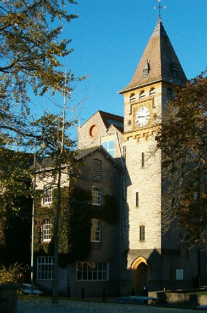 Clock Tower, C&J Clark, Street. The clock tower at the Street factory of C&J Clark, the shoemakers. Sadly, shoes are no longer made in Street, although they are sold in quantity. It is believed by the photographer that Douglas Adams was inspired by the shoe shops in the village to invent the retail theory called the "Shoe Event Horizon".